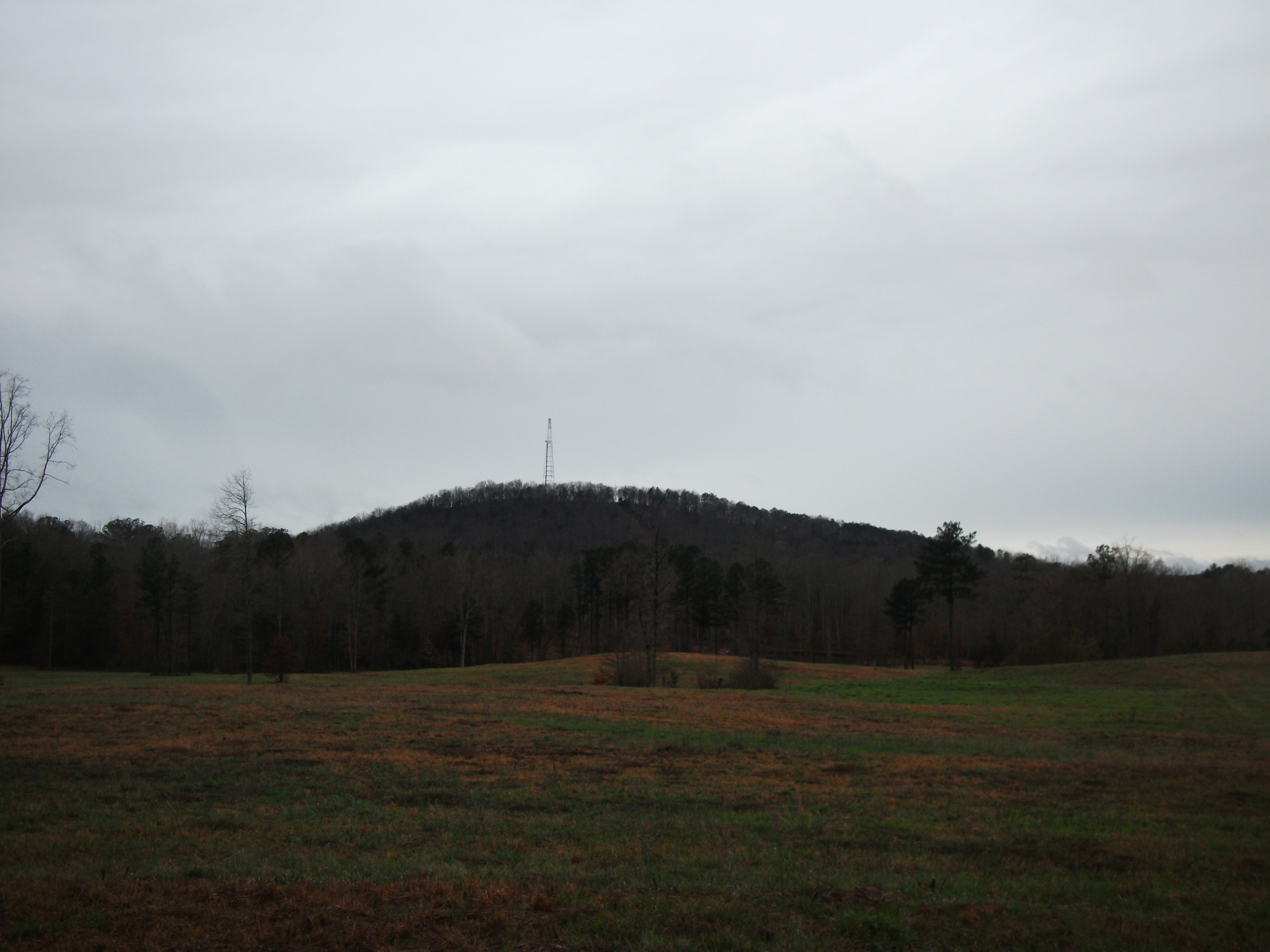 Alcovy Mountain, Walton County, Georgia